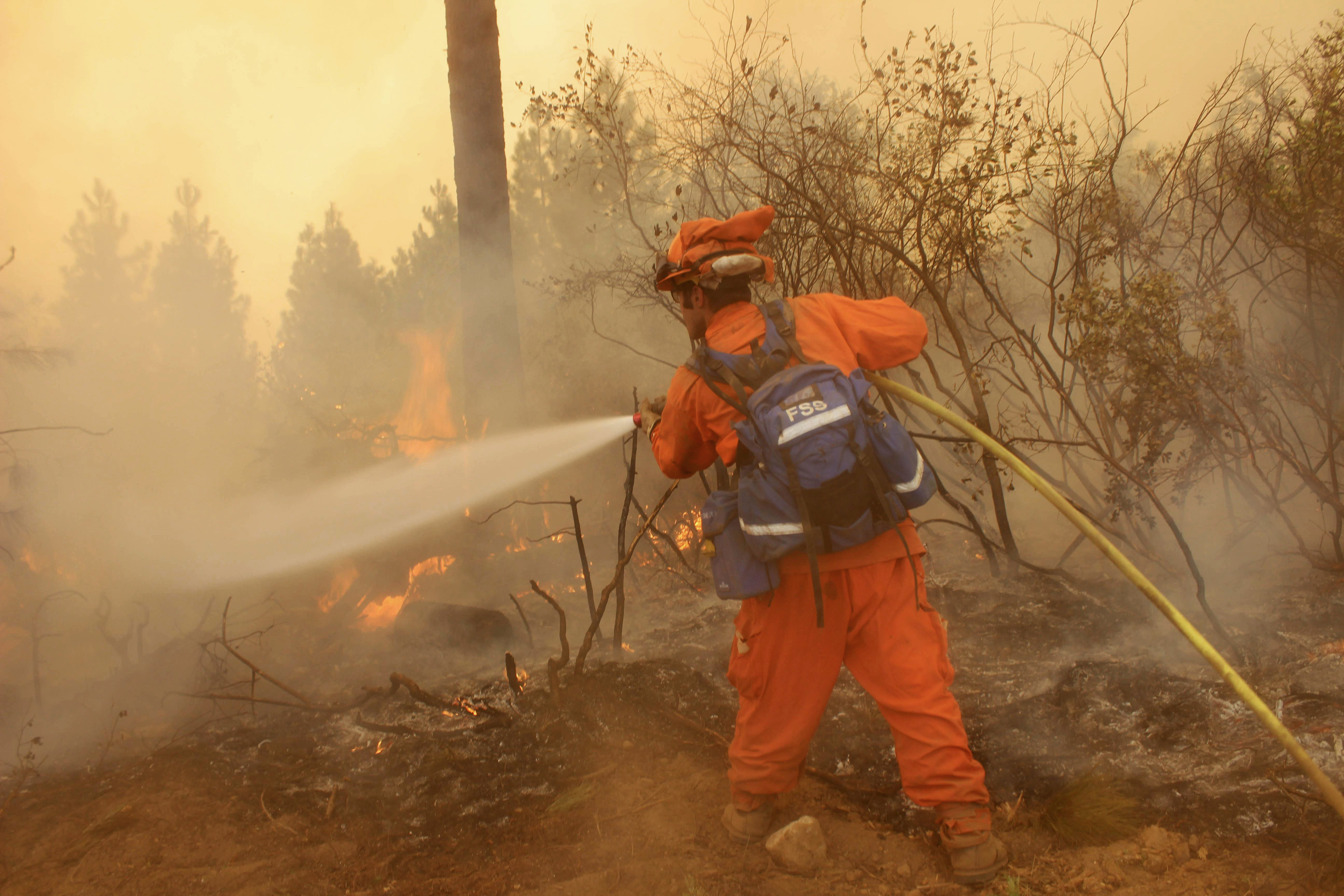 Incarcerated firefighters spray down a hotspot at the Rim Fire in the Stanislaus National Forest in California. U.S. Forest Service photo by Mike McMillan.